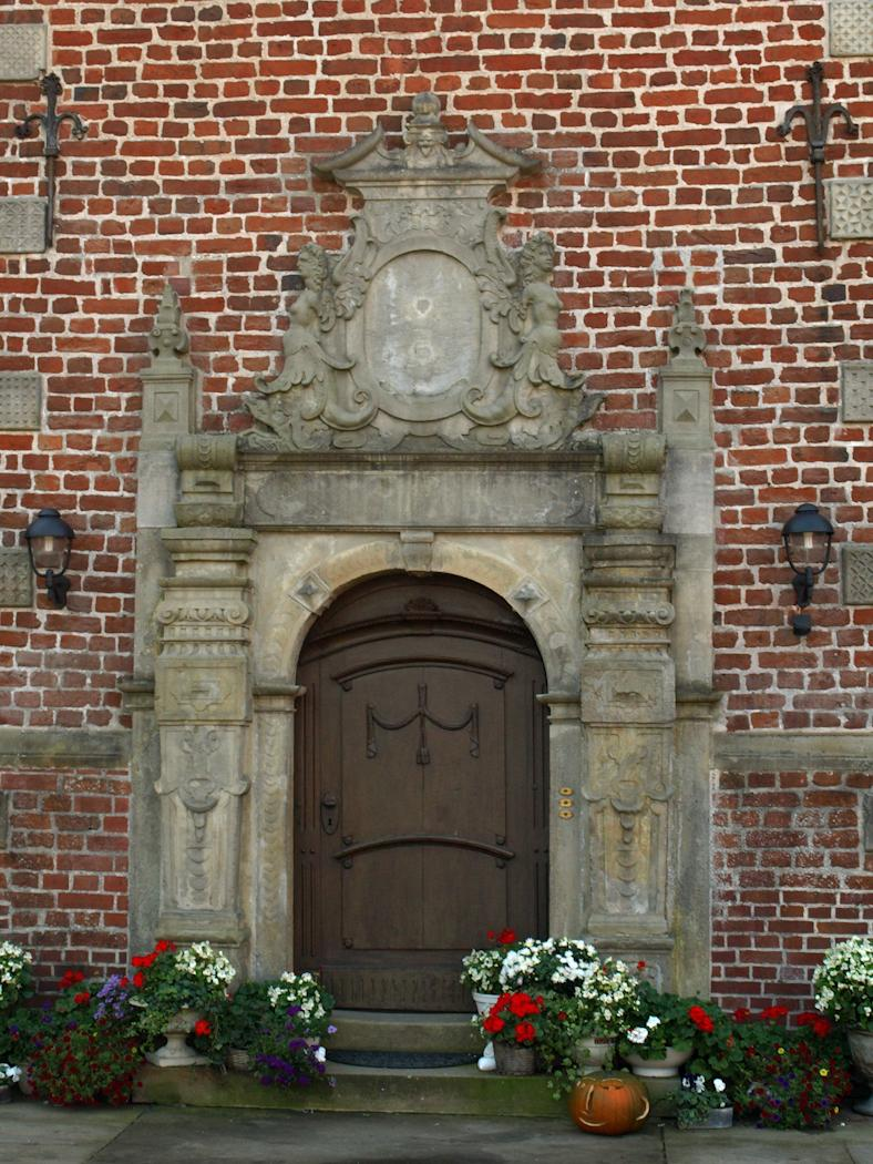 Thedinghausen (Lower Saxony, Germany), Castle Erbhof, Entrance, photo 2011